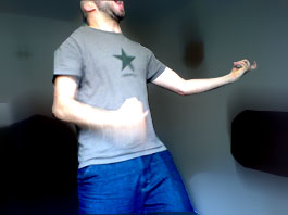 air guitar and airguitarplayer... author: greenprak